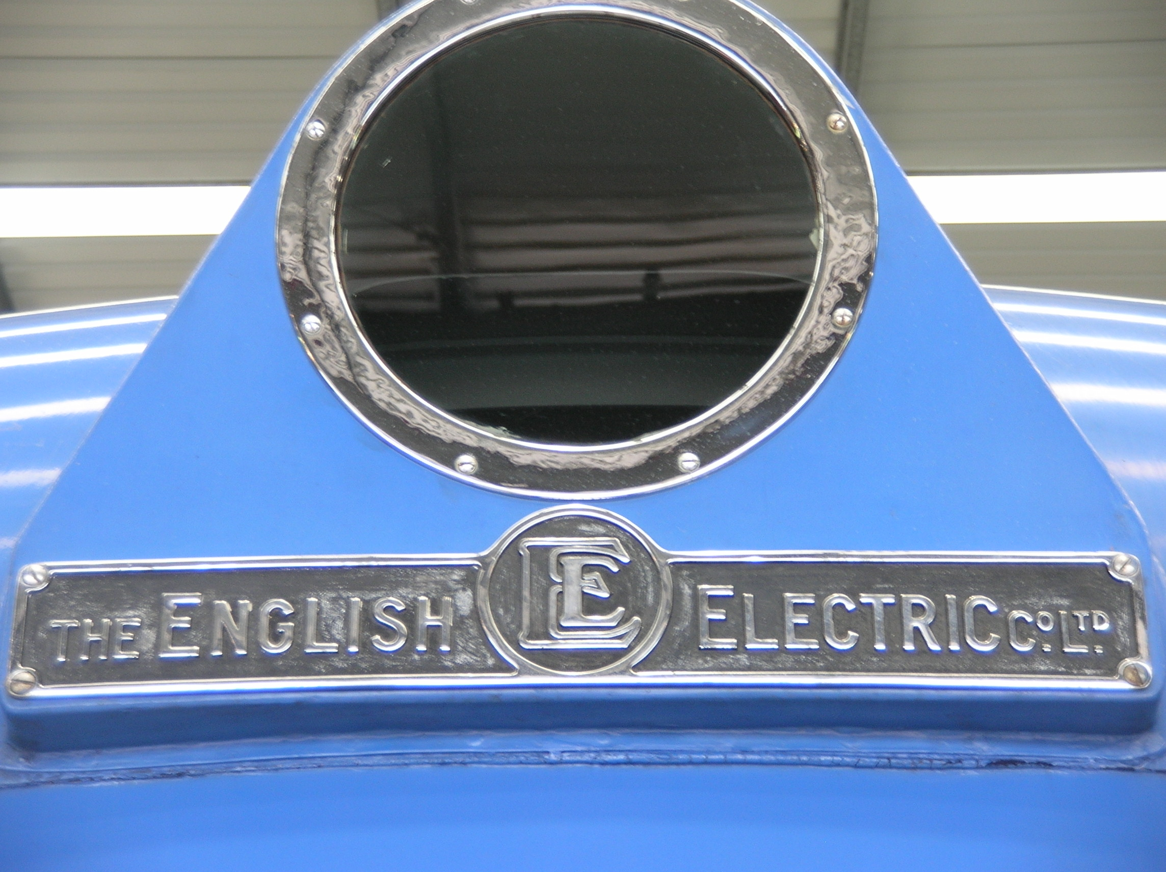 English Electric Deltic